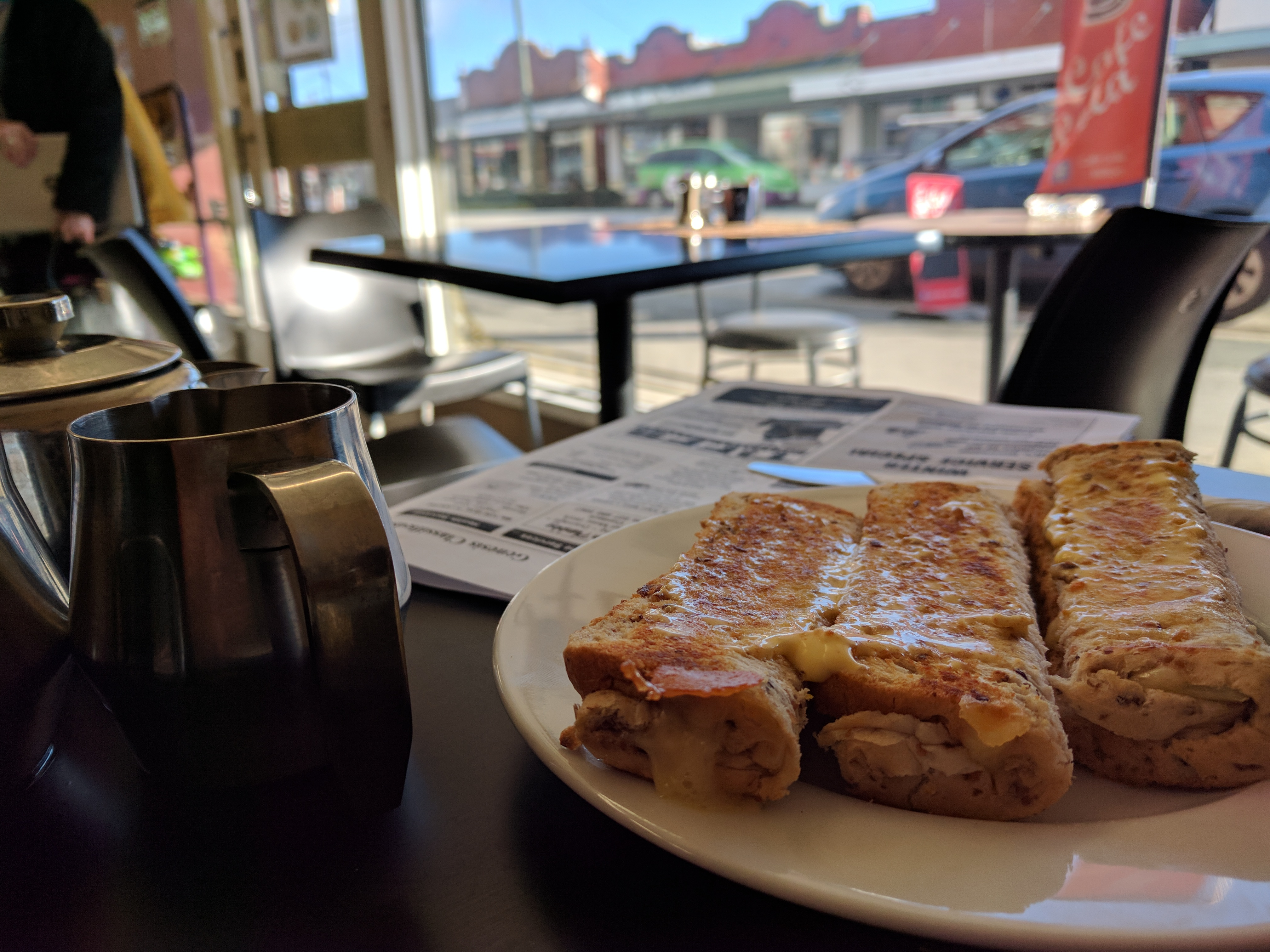 Cheese rolls are a regional food from Southland and Otago, New Zealand. Three cheese rolls, photographed as served at Café Lola in Milton, Otago.